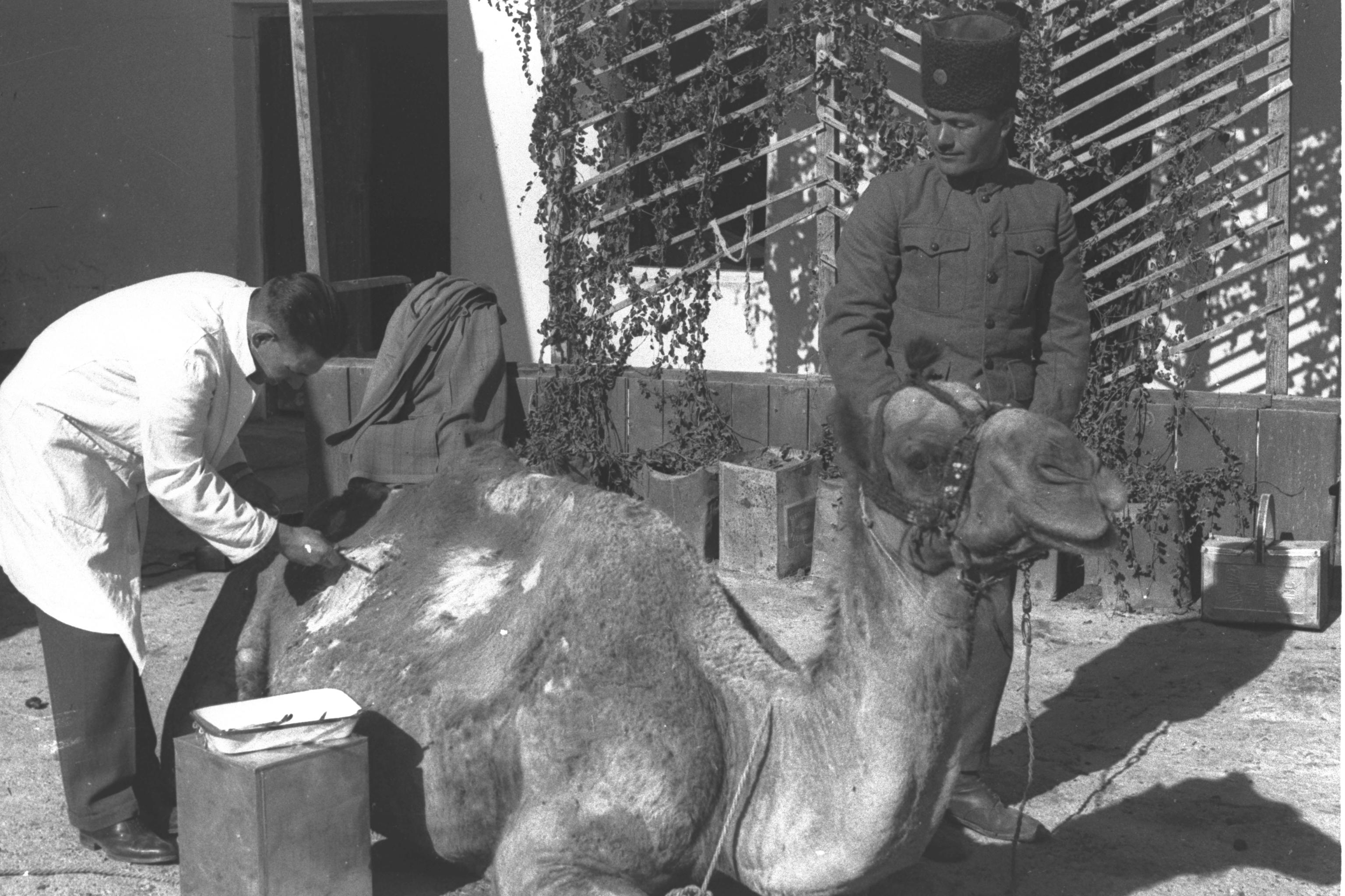 A VETERINARIAN TREATING A CAMEL AT THE GOVERNMENT VETERINARY STATION AT SHUAFAT NEAR JERUSALEM. שרותים וטרינרים לחיות ובהמות שועפט ליד ירושלים. בצילום וטרינר מהתחנה הוטרינרית ליד ירושלים בודק גמל.